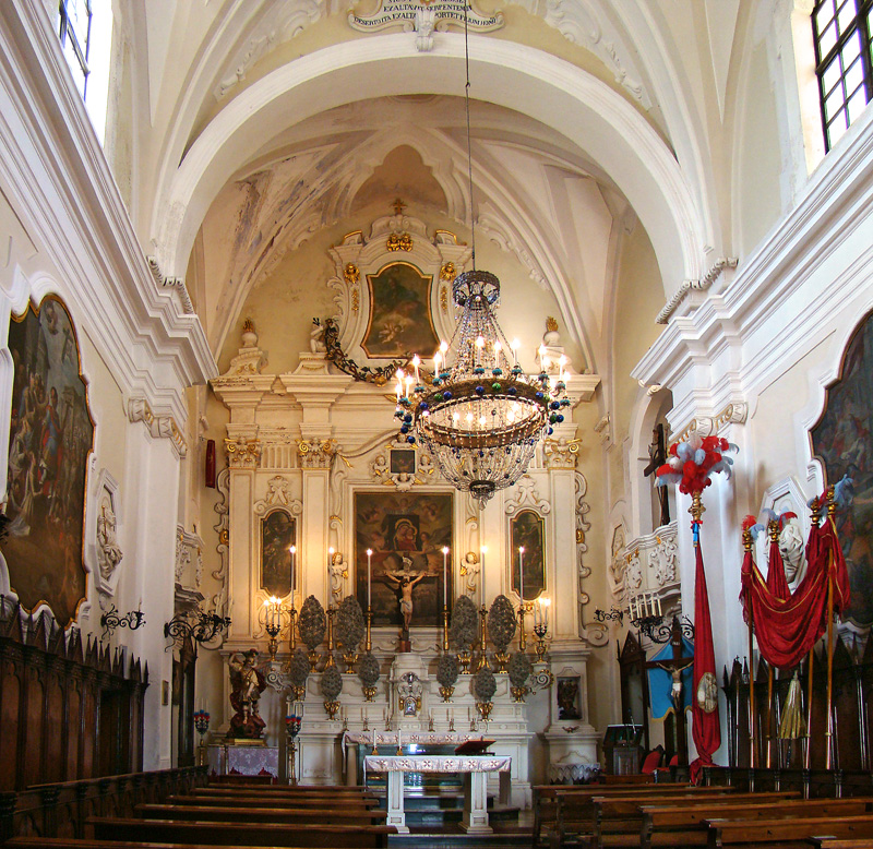 Church of Santissimo Crocifisso, Gallipoli, Apulia, Italy.